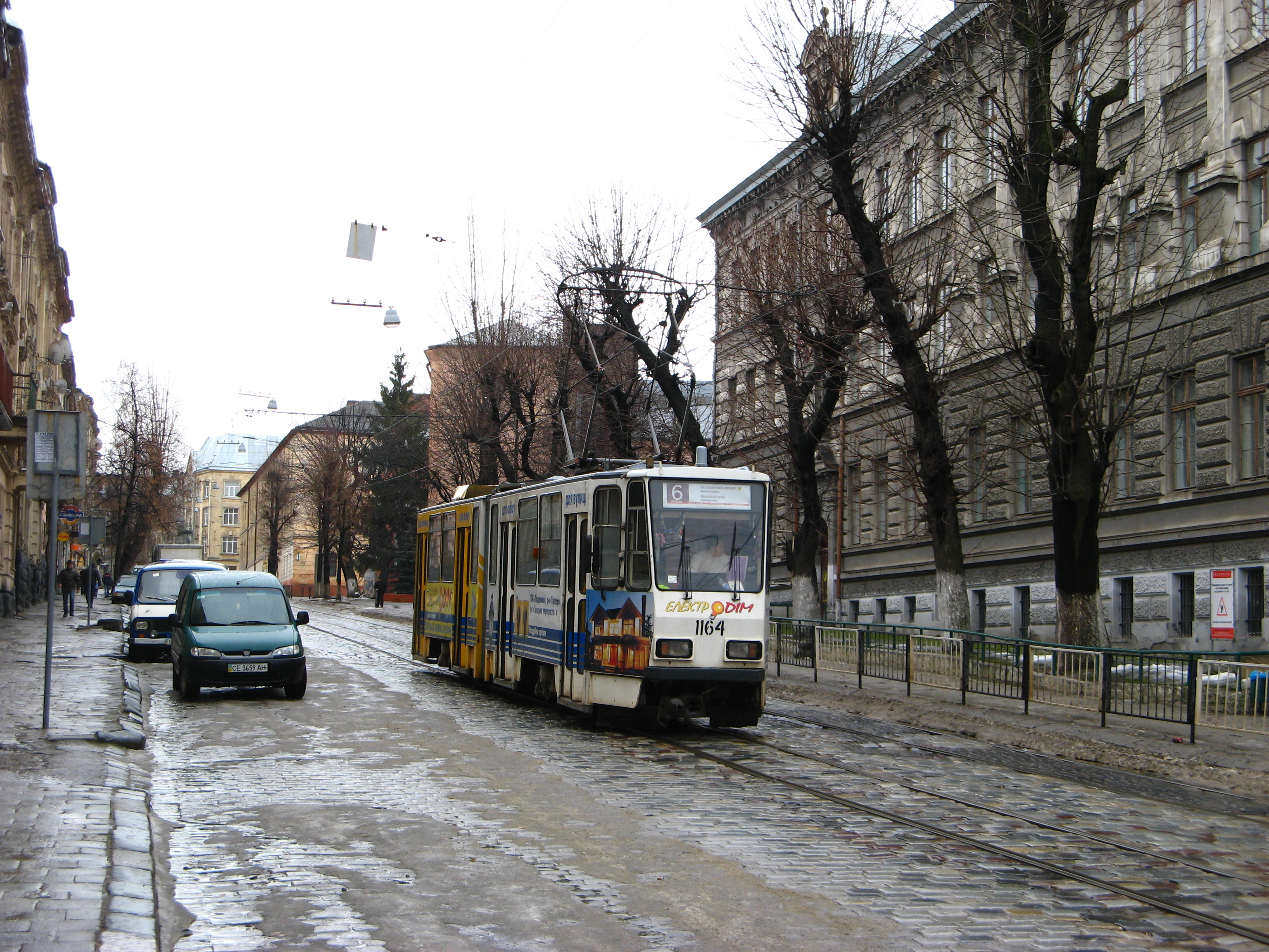 Zamarstyniwska Street (tram 6), Lviv